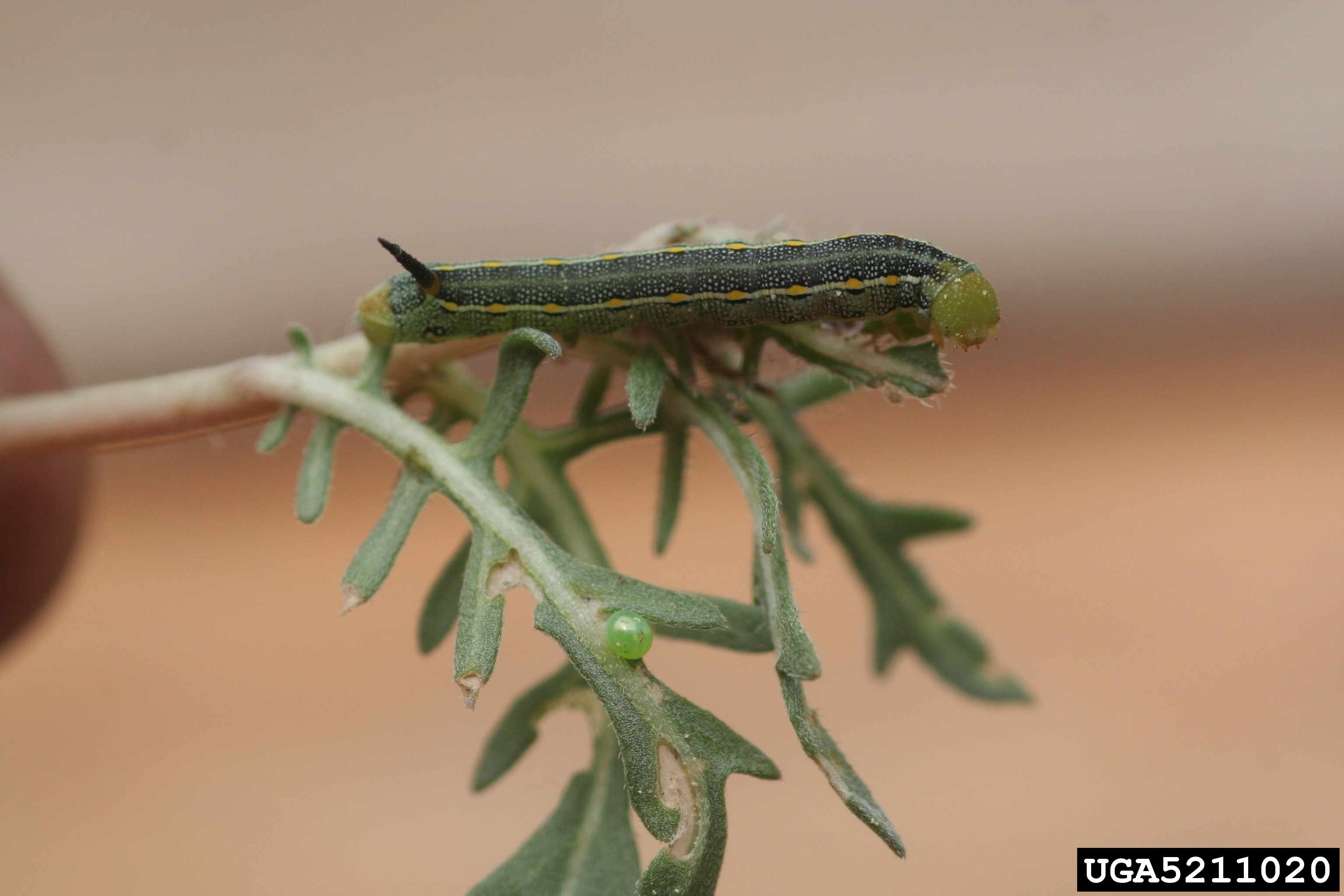 Larva and egg of Hyles lineata from the United States